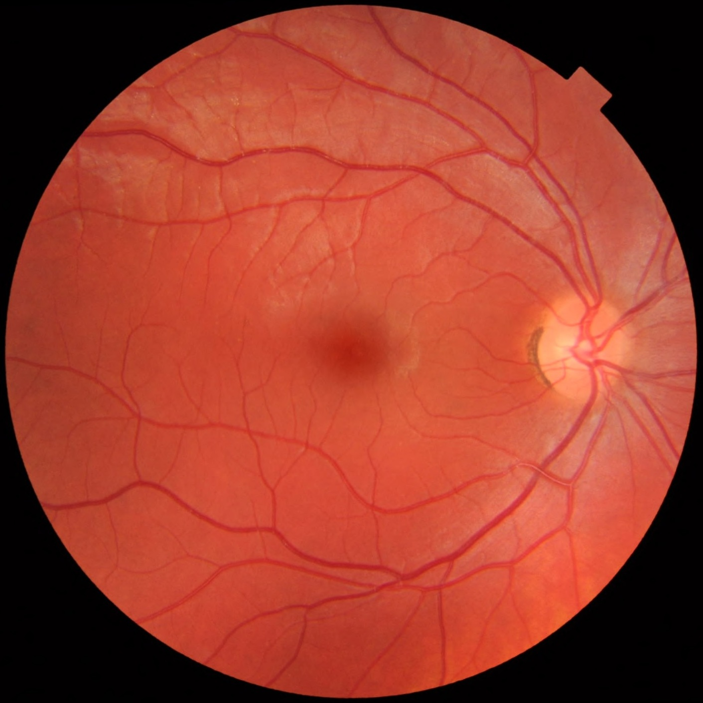 Fundus photograph of the right eye, showing a fundus with no sign of disease or pathology. It is seen from front so that left in each image is to the person's right. The gaze is into the camera, so the macula is in the center of the image, and the optic disk is located towards the nose (right in image). The optic disk has some pigmentation at the perimeter of the lateral side, which is considered non-pathological. Veins are darker and slightly wider than corresponding arteries. Major nerve pathways are seen as white striped patterns radiating from the optic disk. In addition, there are also lighter areas close to larger vessels seen mainly at upper left in the image (person's upper right), which is regarded as a normal finding in younger people. Photo is taken at Gävle Hospital in Sweden in 2012 on a healthy 25-year old male volunteer.